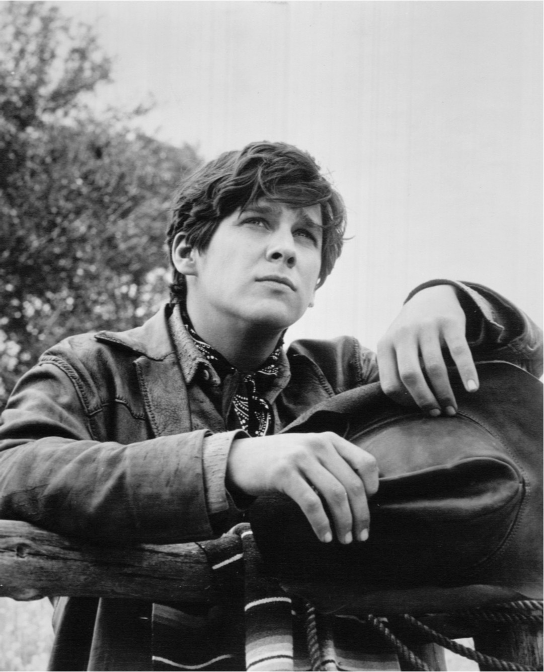 Photo of Tim Matheson as Jim Horn from the television series The Virginian. The item has no copyright markings on it as can be seen in the links above.